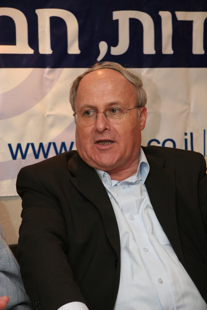 Zevulun Orlev, an Israeli member of the Knesset.